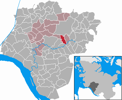 This map shows the area of the municipality Winseldorf in the Kreis (district) Steinburg, Schleswig-Holstein, Germany.